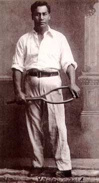 Paraire Tomoana